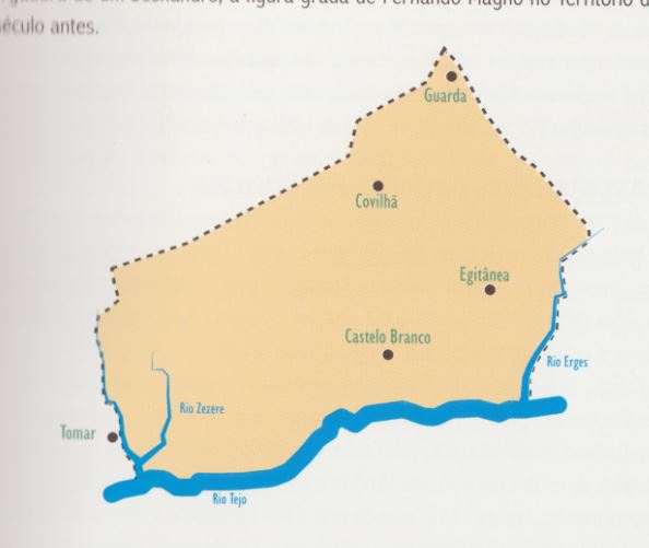 Herdade da Egitânia, doada aos Templários por D . Afonso Henriques, em 1165